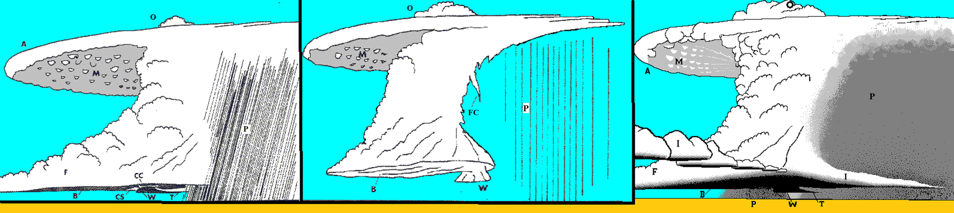 Composite of 3 images describing from left to right: Classic, low precipitation (LP) and high precipitation (HP) supercells as viewed from the side. One can see in the cumulonimbus the position of : O : overshooting top A : the anvil M: the mammatus clouds I: inflow bands of clouds B: the rain-free base W: the wall cloud P: the precipitation T: the tail cloud F: the flanking line FC: Possible funnel cloud